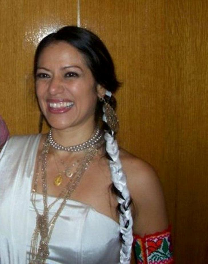 Mexican singer Lila Downs after offer a certain at "Cemal Resit Rey Concert Hall" in Istanbul, Turkey in 2010.